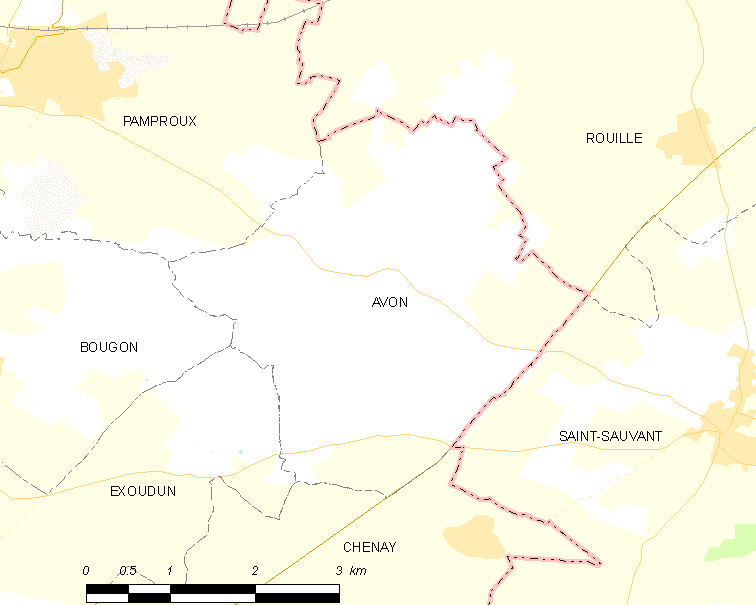 Map of French municipality Avon